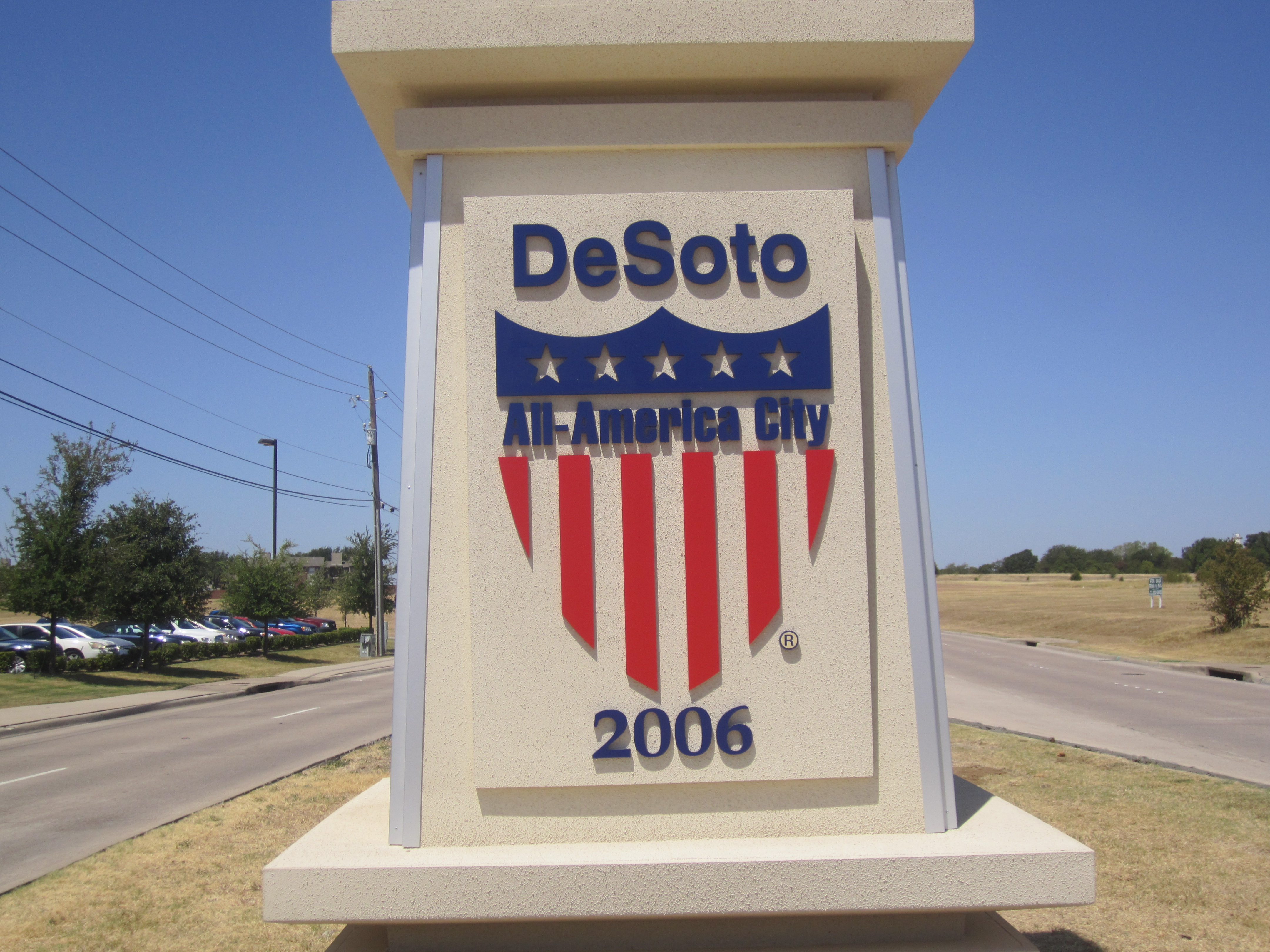 I took photo with Canon camera of DeSoto, TX, sign.